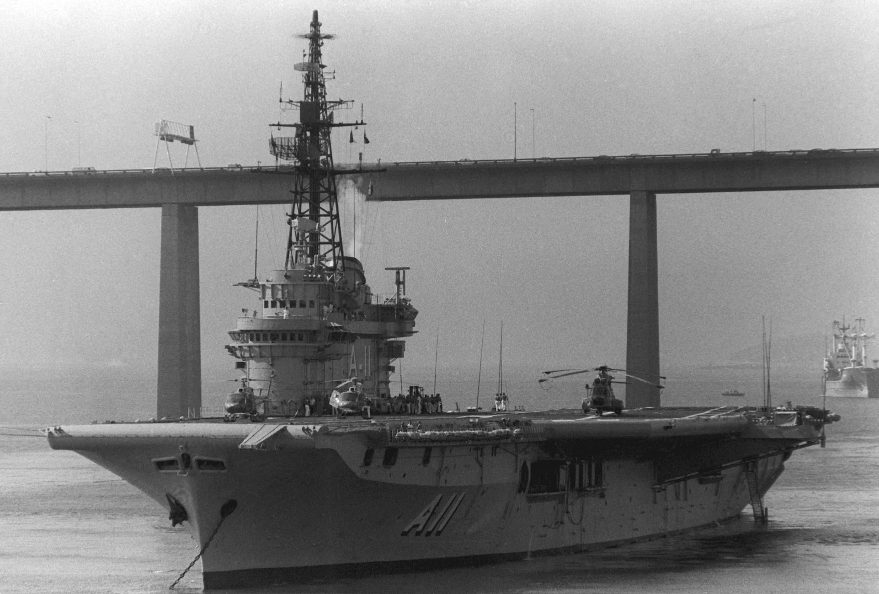 Port bow view of the Brazilian aircraft carrier Minas Gerais (A-11) at anchor halfway between the Rio De Janeiro Naval Base and the Do Mocangue Navy Base inside Rio Harbor as seen during the joint exercise.